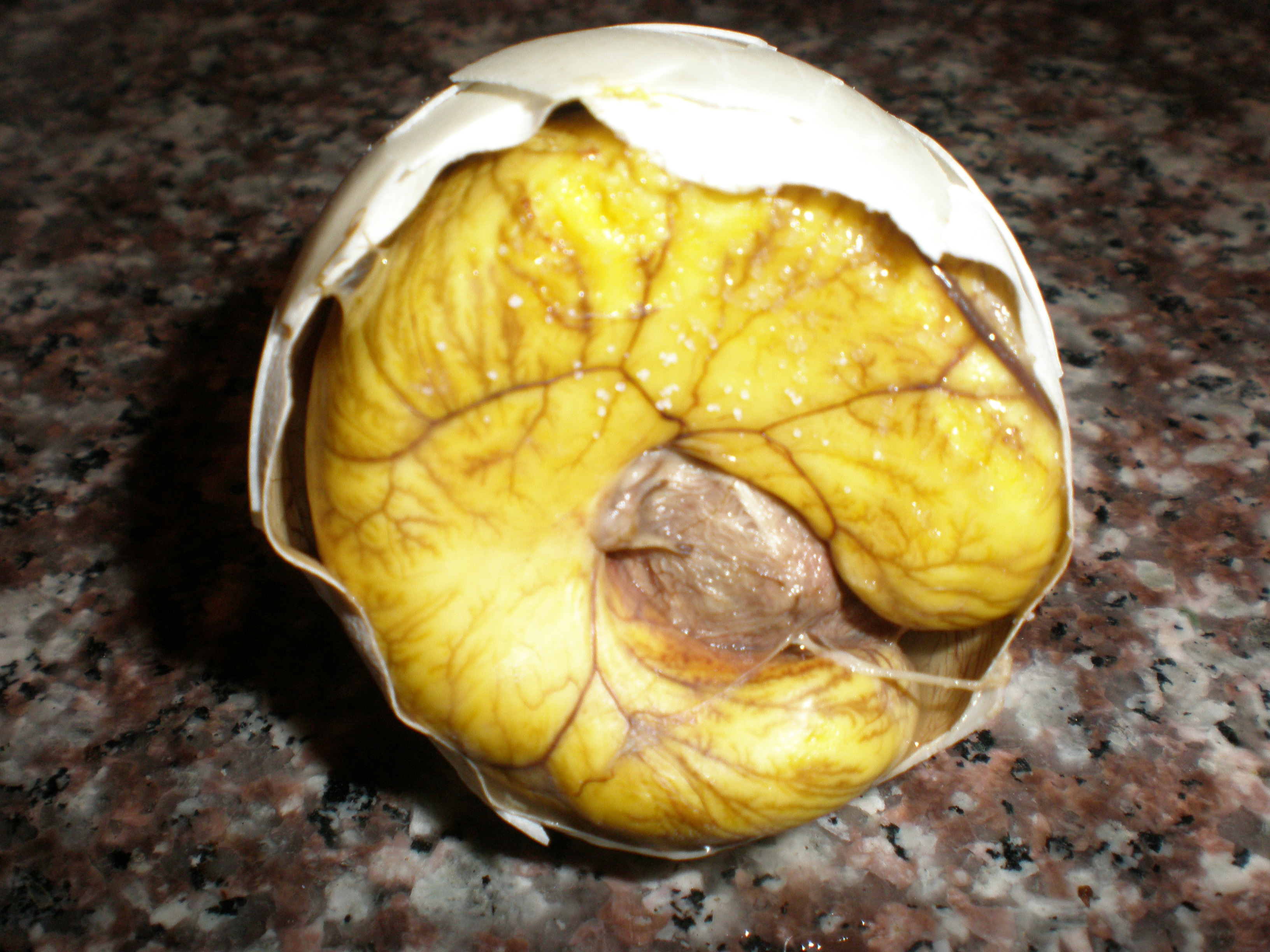 An open balut showing the yolk. Part of the chick can be seen at the lower right.